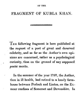 First page of "Preface" to Kubla Khan.